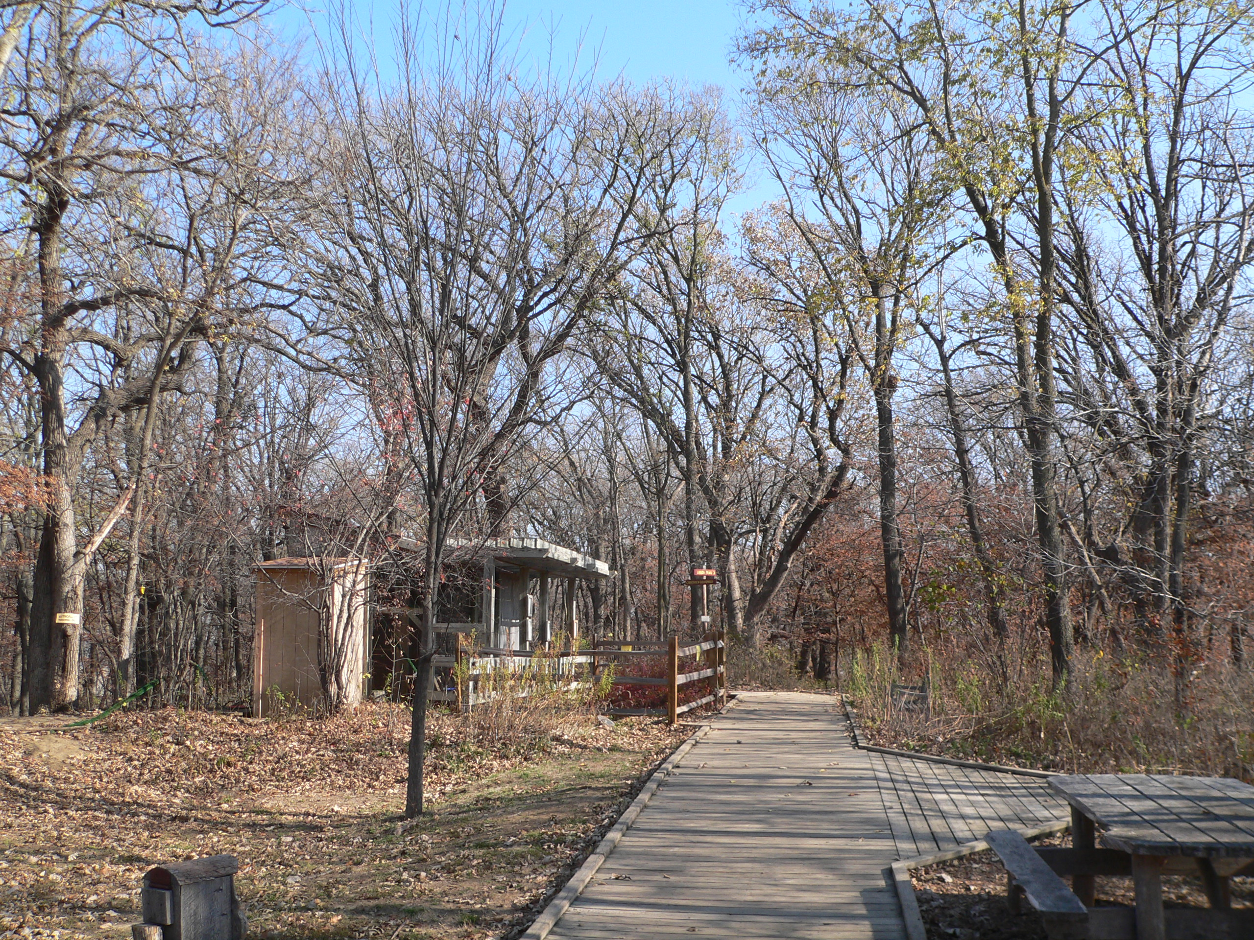 Fontenelle Forest in Bellevue, Nebraska: boardwalk trails on upper level of preserve, near visitor center.